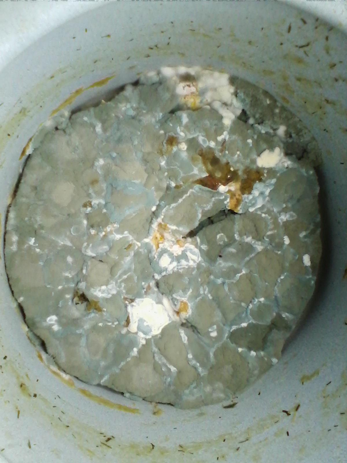 Few weeks old mould in pot. I forgotten clean he :-D